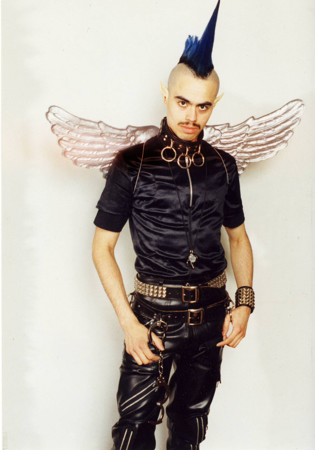 Angel Melendez with gold wings, pointy ears, and blue hair